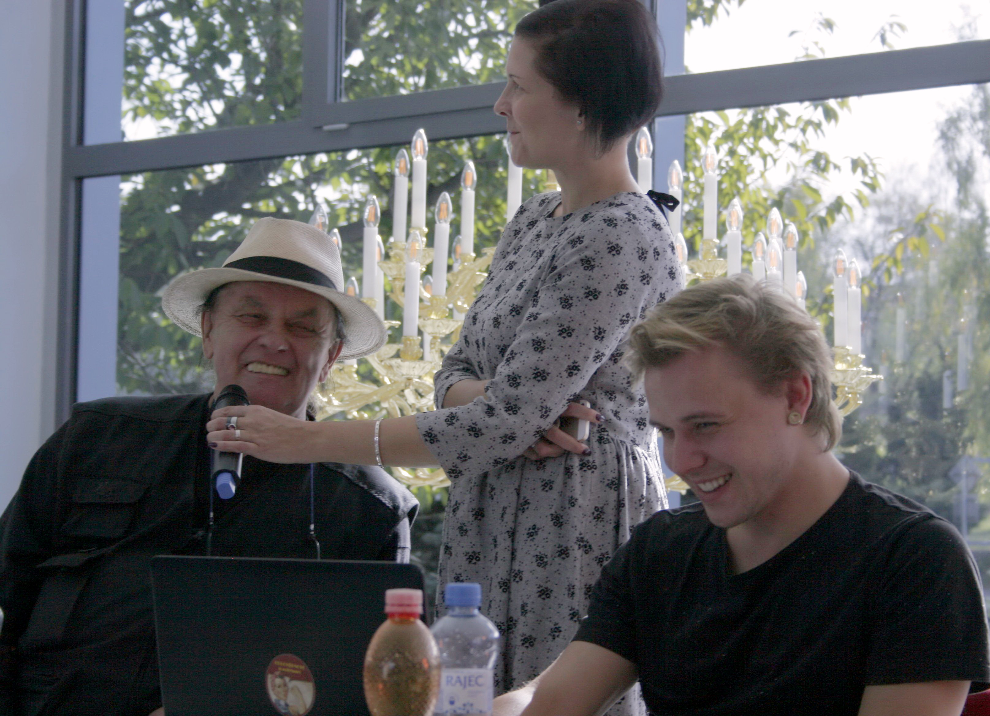 Preciosa glassworks during the International Glass Symposium, Kamenický Šenov, Czech Republic. Personality rights warningAlthough this work is freely licensed or in the public domain, the person(s) shown may have rights that legally restrict certain re-uses unless those depicted consent to such uses. In these cases, a model release or other evidence of consent could protect you from infringement claims.